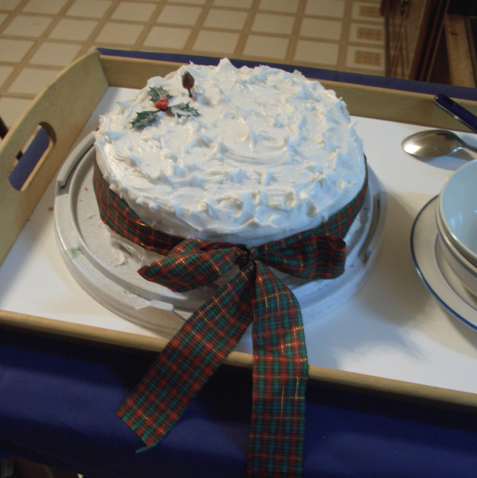 A Christmas cake with much icing.